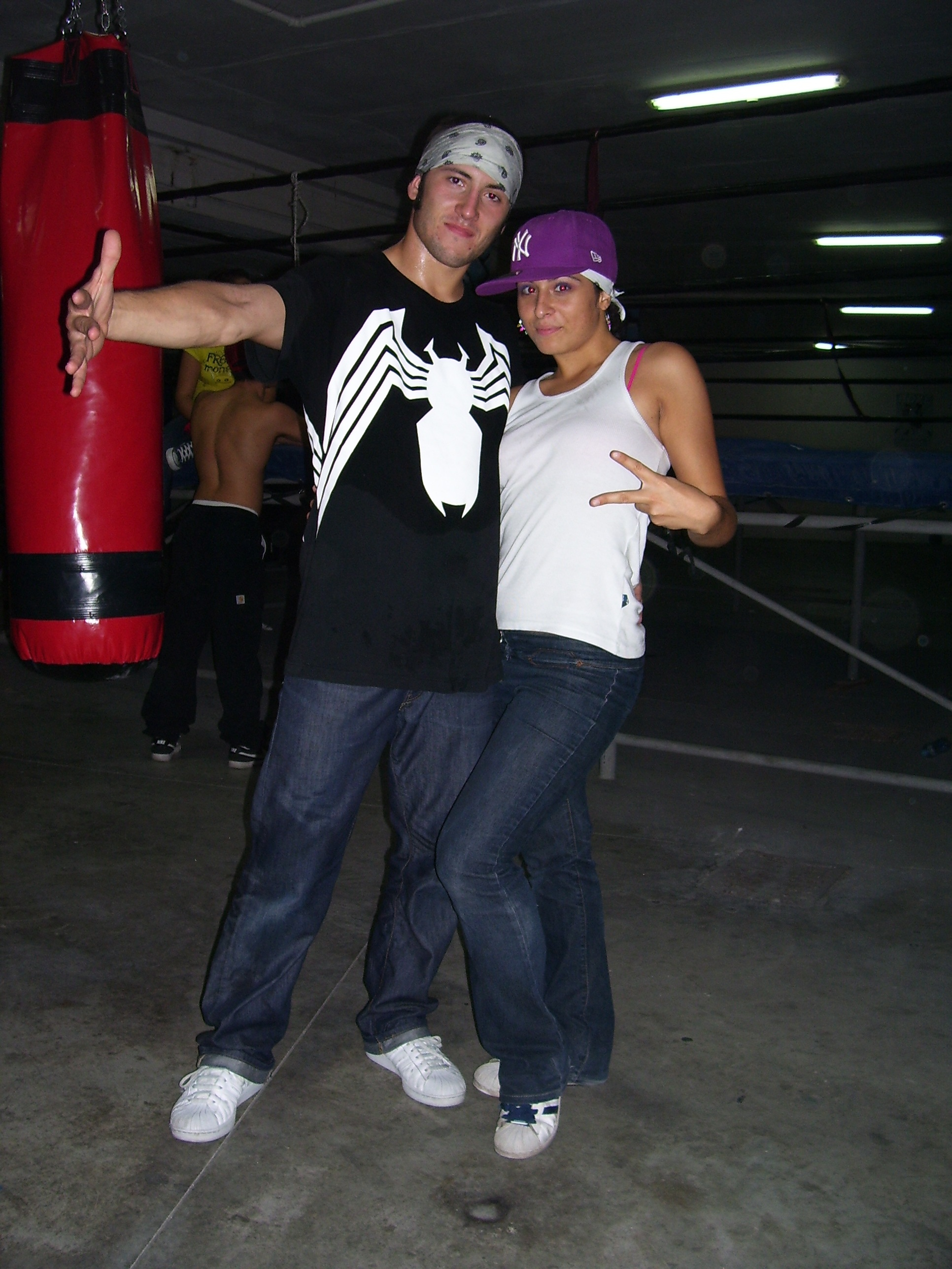 B-boy Nexus and b-girl Moretz at Naples (The cage - 2008)